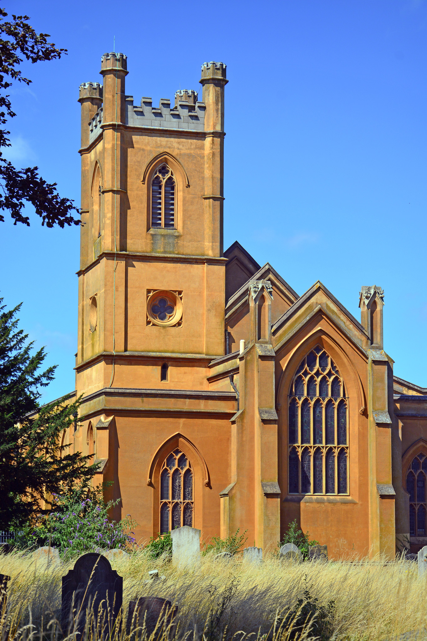 Architect: George Smith, 1822, in the Perpendicular Gothic-Revival style. Master-Builder: John Chart. Channelled cement render with some Bath stone dressings. Grade II*-listed. Parish Church of St Peter and St Paul, Church Road, Mitcham, London Borough of Merton. ( CC BY-SA - credit: Photo by George Rex.)